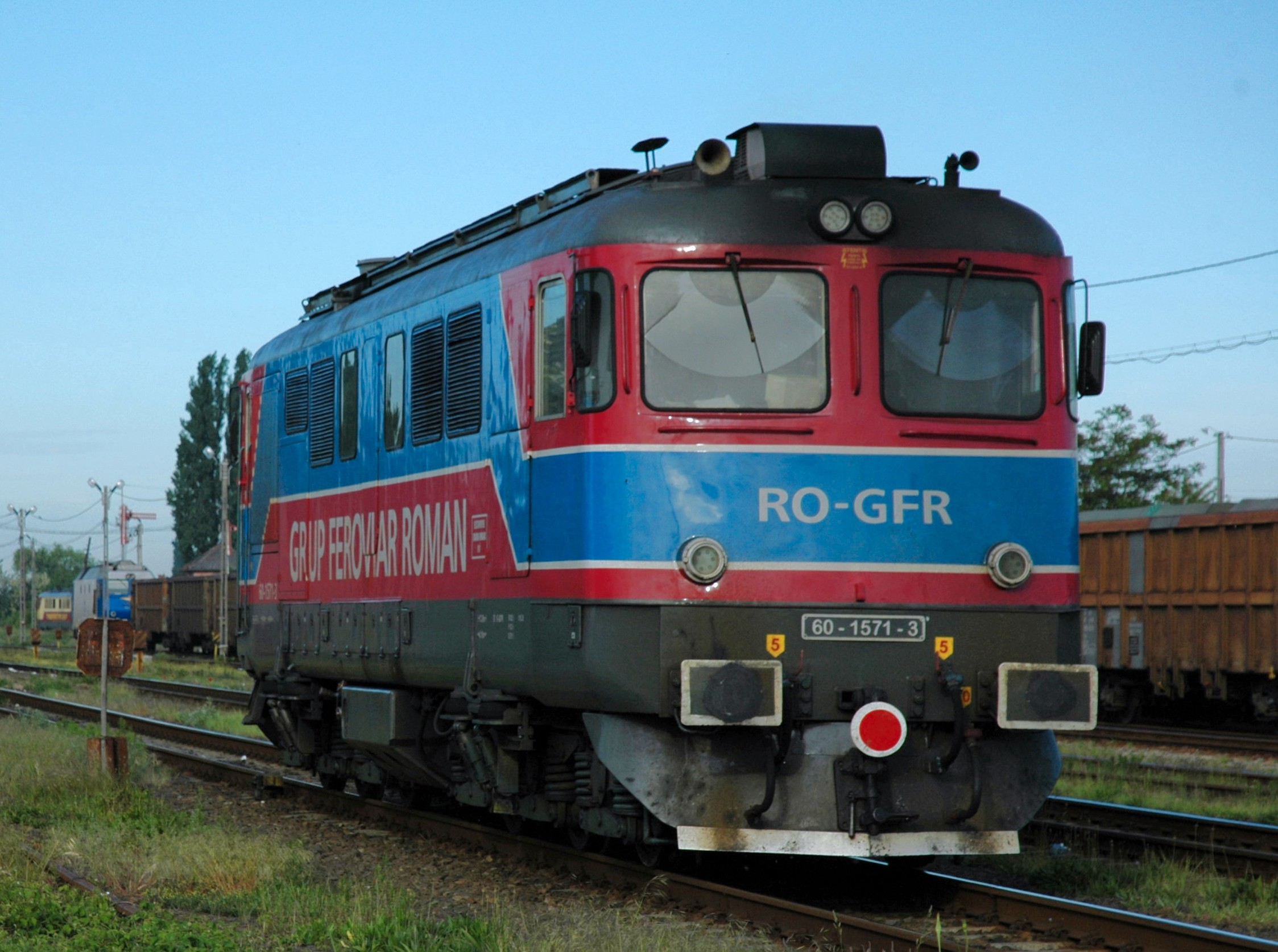 60-1571 of Grup Feroviar Român; Valea lui Mihai station, Romania